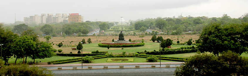 Gandhinagar, capital of Gujarat